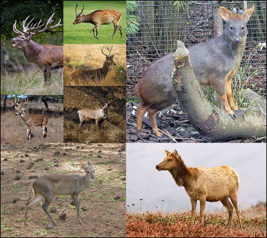 Cervidae